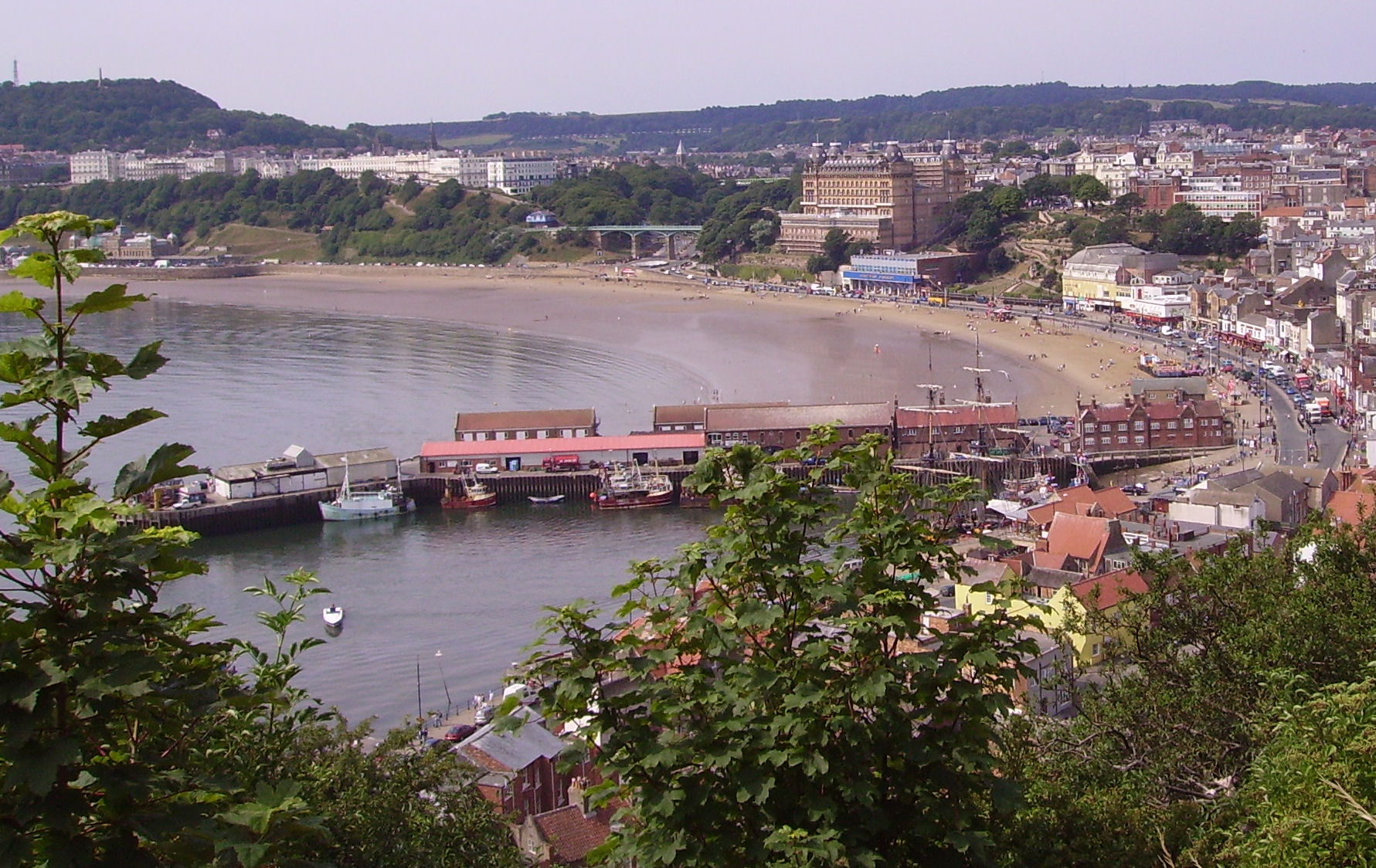 harbour of Scarborough in North Yorkshire, United Kingdom